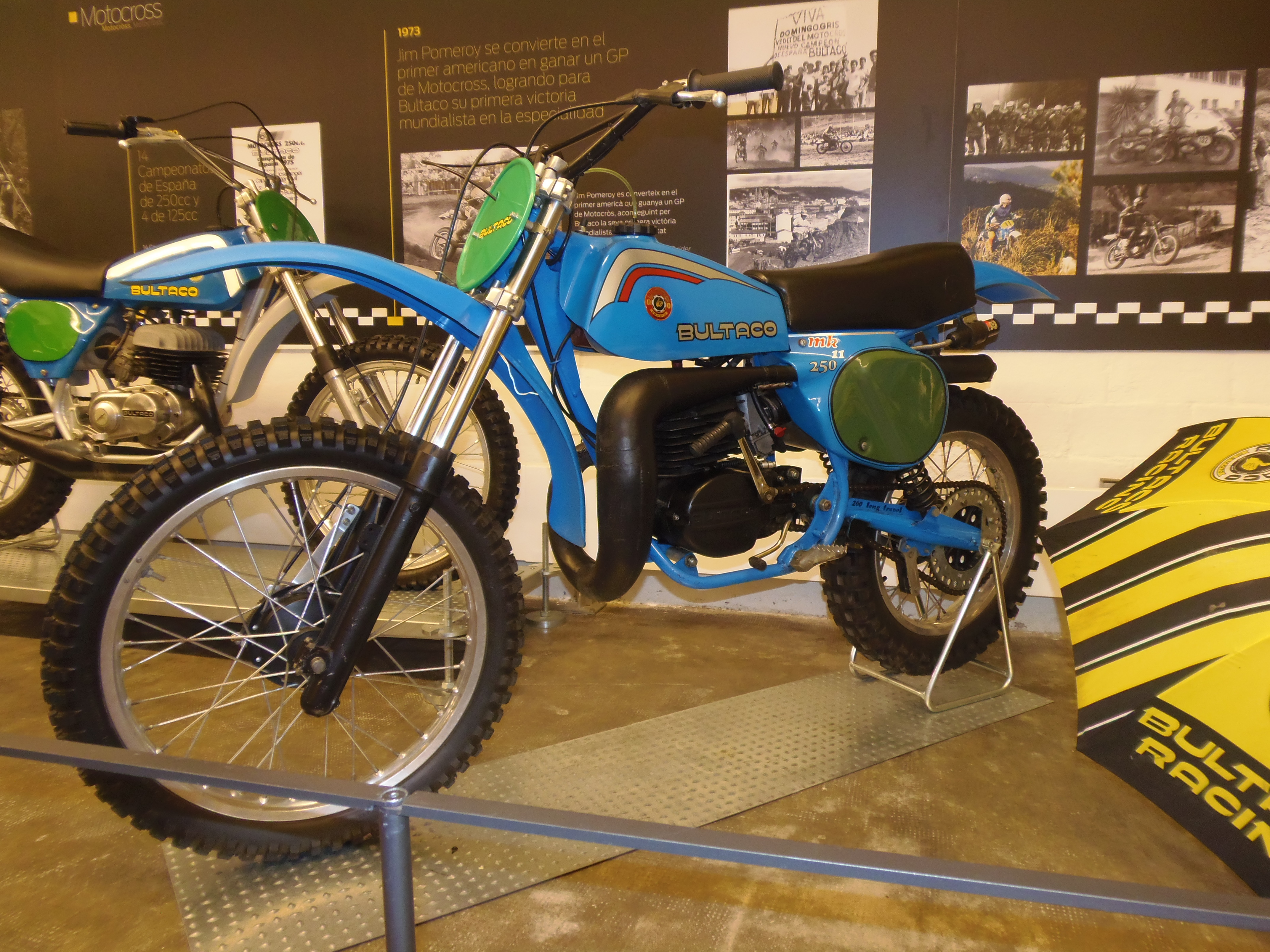 Bultaco Pursang MK11 250, 250 cc, 1978